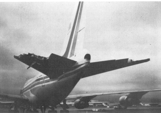 Damaged empennage of China Airlines Flight 006 Accident in Feb. 19 1985.